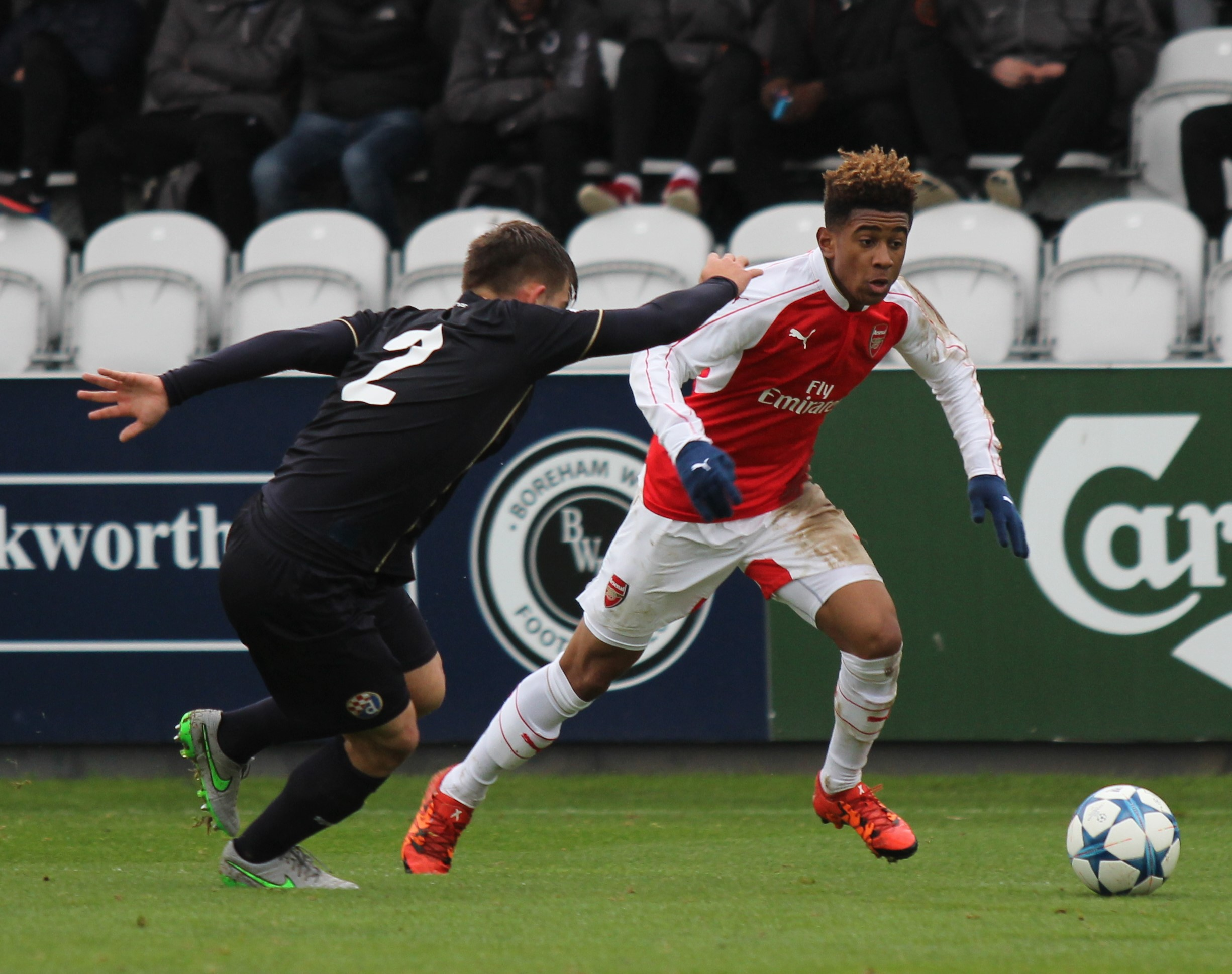 Reiss Nelson of Arsenal U19s on the ball during the game against Dinamo Zagreb.